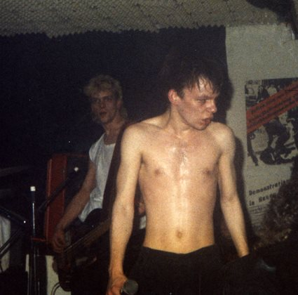 Norman Schlimmer, front singer of Uncounted Faces of Death